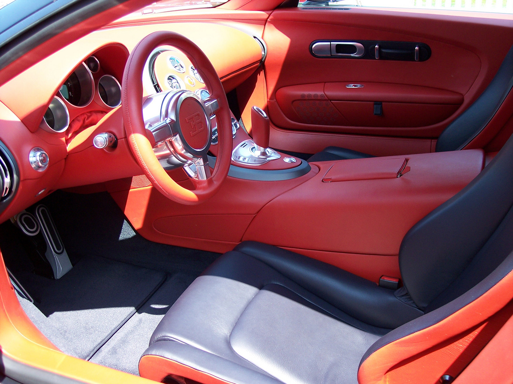 The interior of a Bugatti Veyron Fbg par Hermès